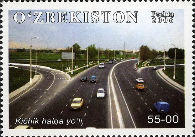 Stamps of Uzbekistan, 2006